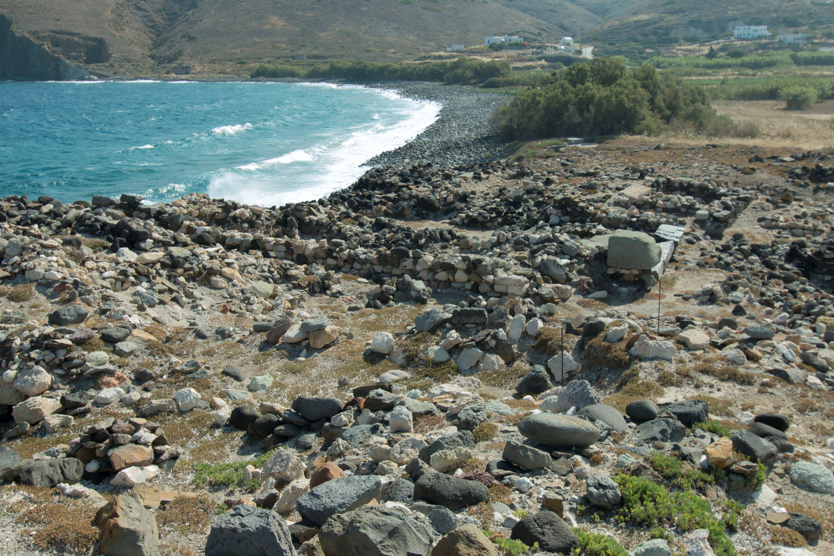 The northeastern part of the archaeological site in Phylakopi.